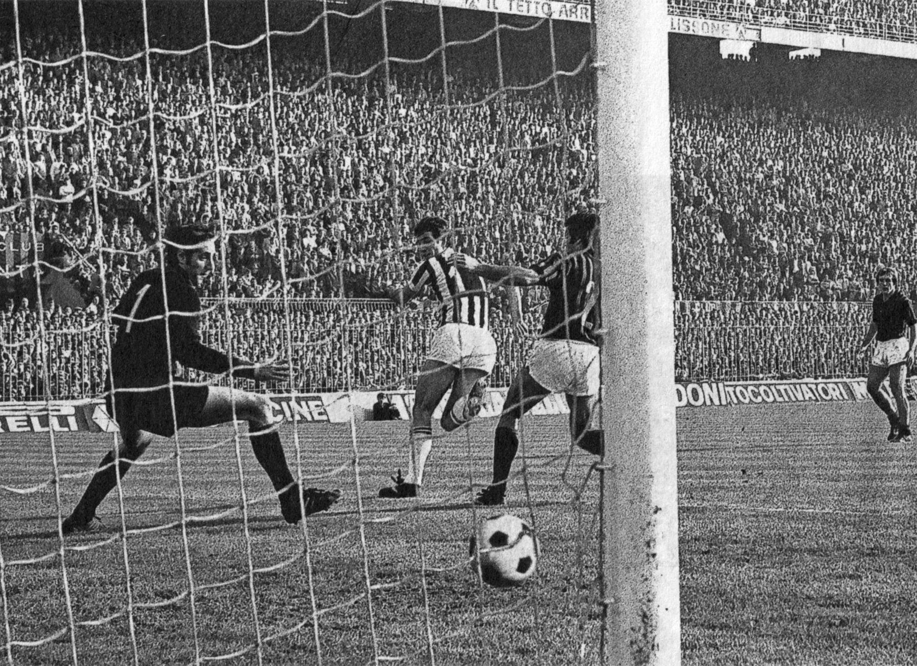 Milan (Italy), San Siro, October 31, 1971. Milan A.C. — Juventus F.C. 1-4, Matchday 4 of the Italian League 1971–72 Serie A: Juventus' forward Roberto Bettega (no. 11) beats Milan's goalkeeper Fabio Cudicini (no. 1) with a back-heel goal and scores at 28' the partial 0-2 for the away team.